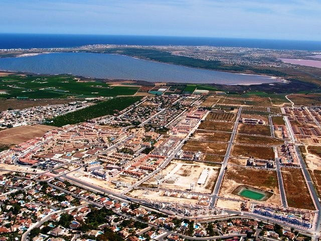 An aerial view of Ciudad Quesada, powered by Euromarina.